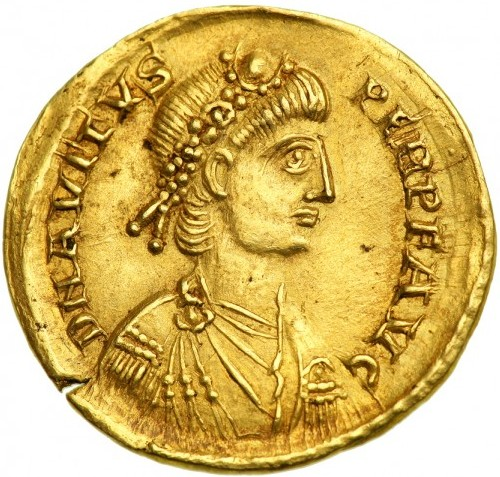 Avitus, AD 455-456. Gold Solidus (4.47g). Minted at Arles July 9, AD 455 - October 17, AD 456. West Roman Empire. D N AVITVS PER P F AVG. Rosette-diademed, draped, and cuirassed bust of Avitus right. RIC 2401; Lacam pl. 9, 16 (this coin) ; Depeyrot 24/1.